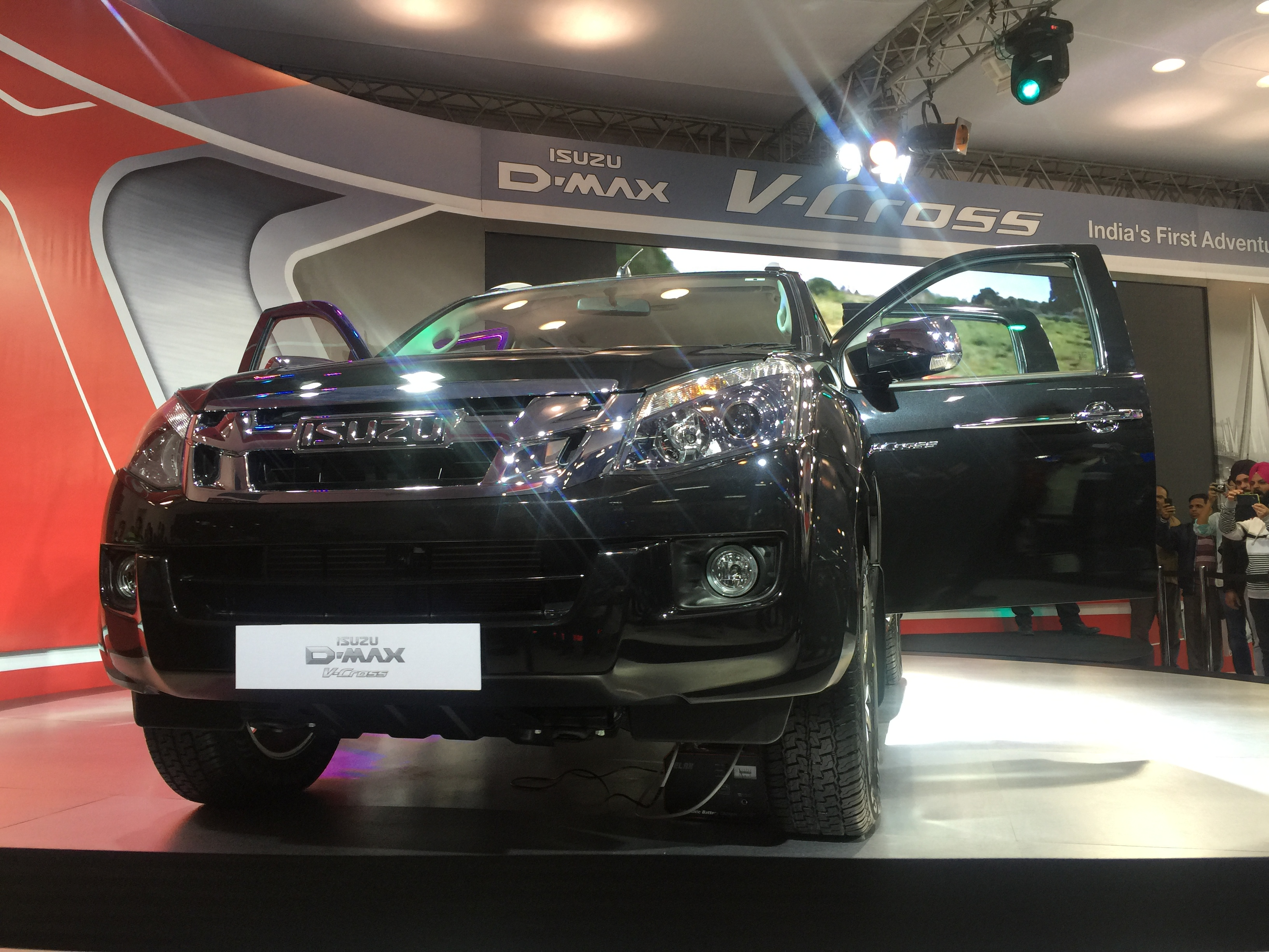 Isuzu D-Max V-Cross at Auto Expo 2016